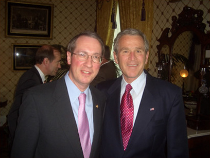 Congressman Bob Goodlatte meets with President George W. Bush at the White House